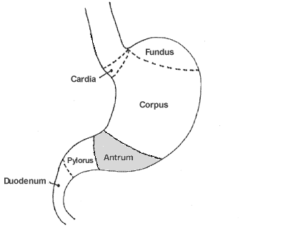 Areas of the stomach